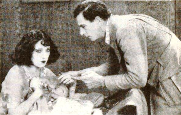 Still from the American silent film The Great Moment (1921) with Gloria Swanson and Milton Sills, on page 59 of the September 1921 Photoplay.